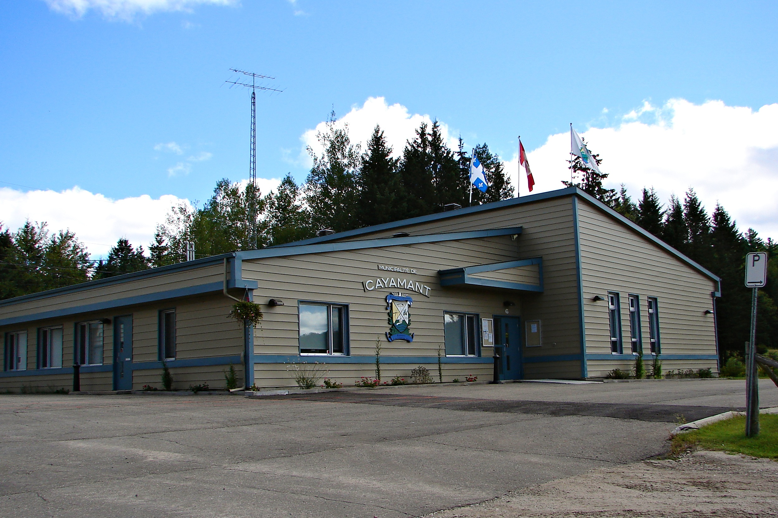 Town hall of Cayamant, Quebec, Canada